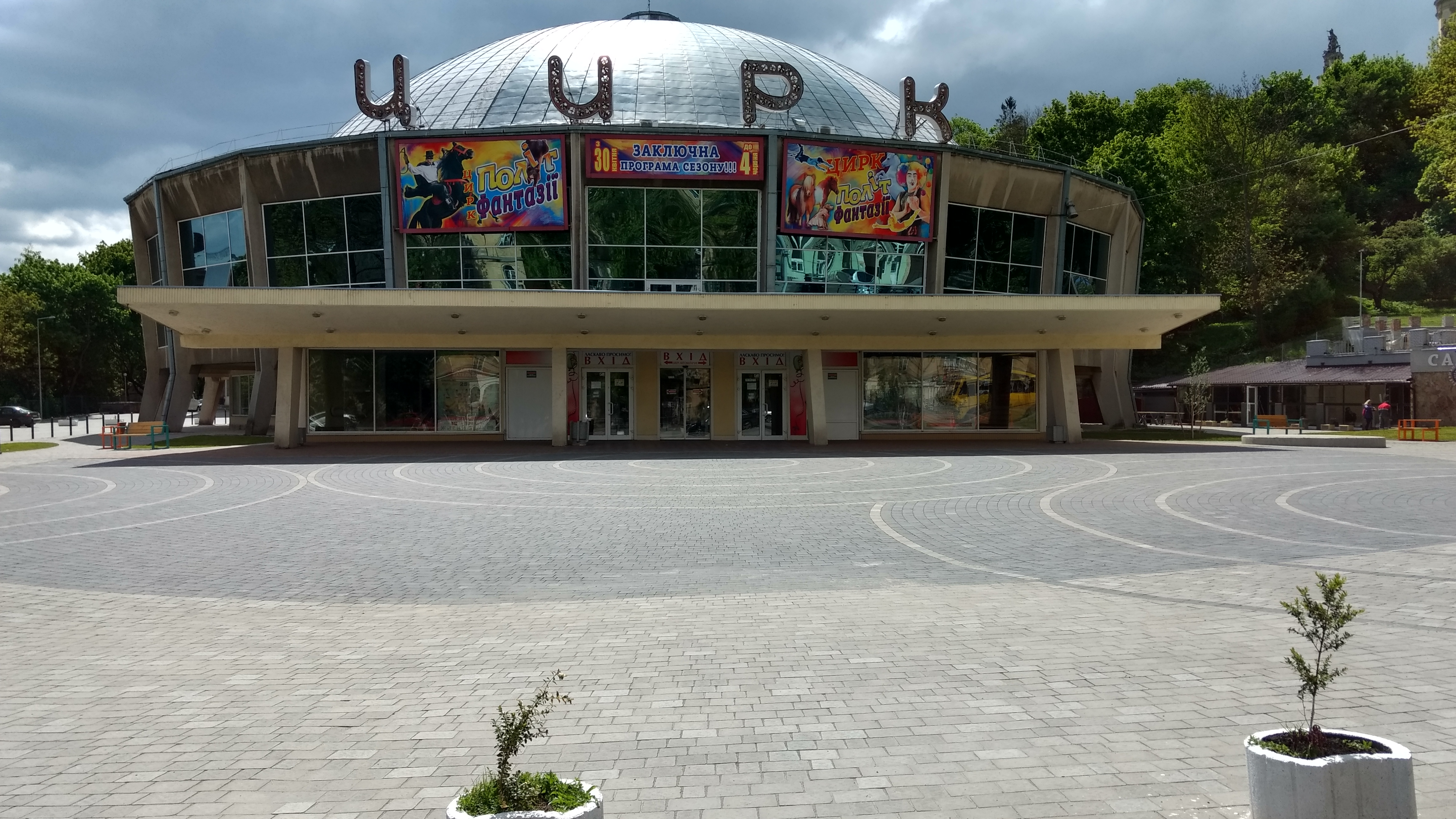 Circus of Lviv in 2017